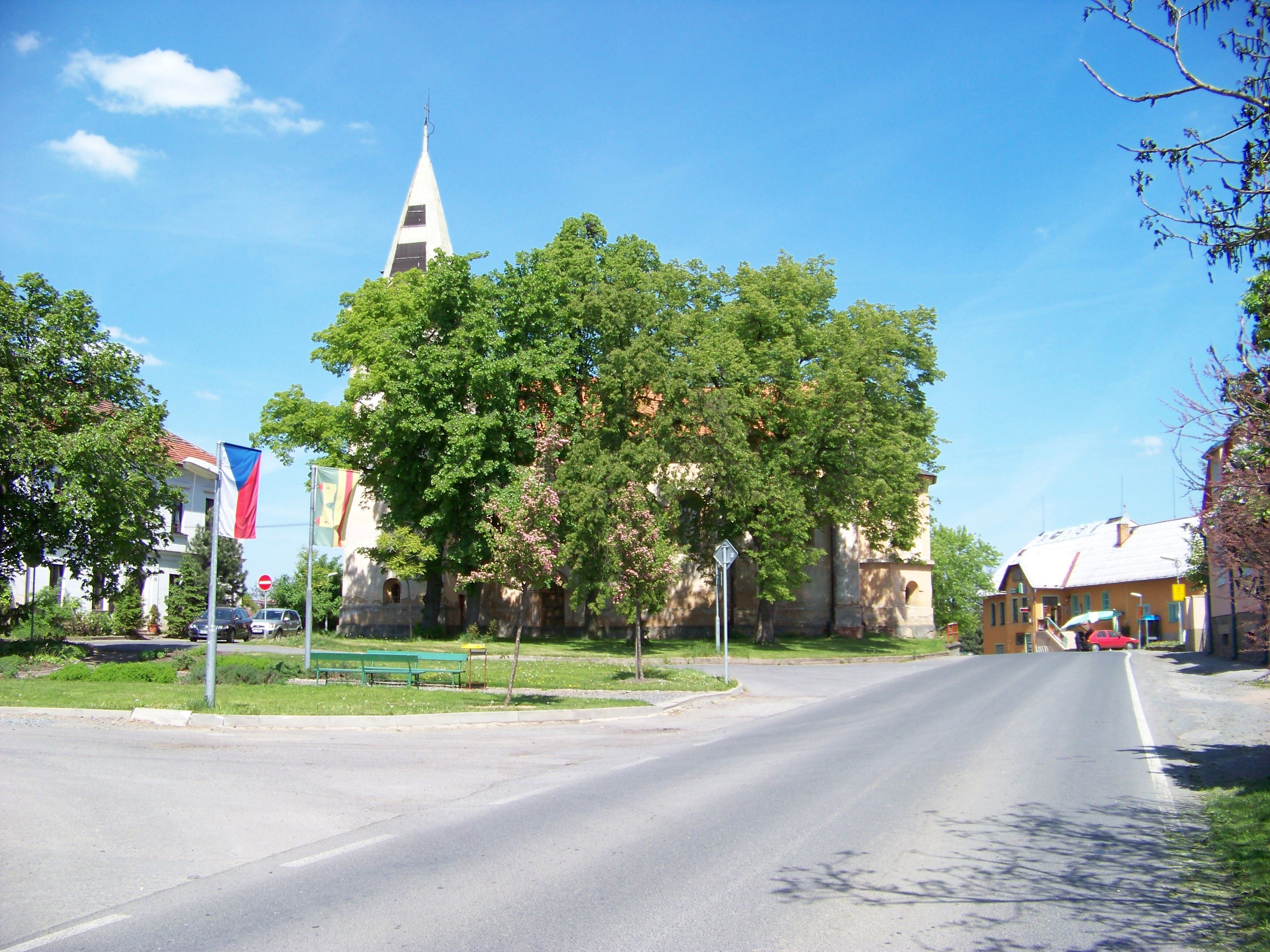 Zlatníky, Zlatníky-Hodkovice, Prague-West District, Central Bohemian Region, the Czech Republic. Náves sv. Petra a Pavla, Church of Saints Peter and Paul. - OpenStreetMap(Info)